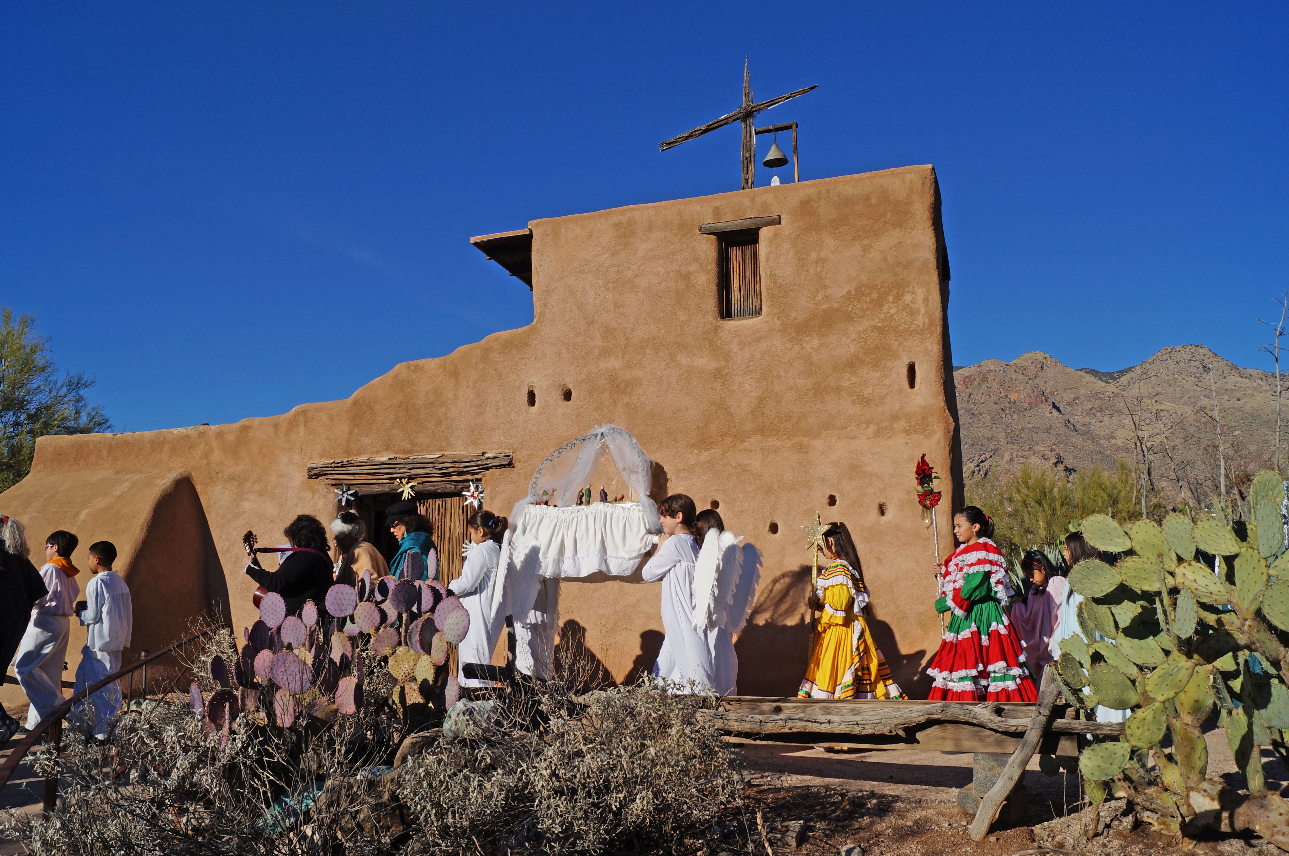 Las Posadas Procession during the gallery's La Fiesta de la Guadalupe- taken in front of the Mission In the Sun